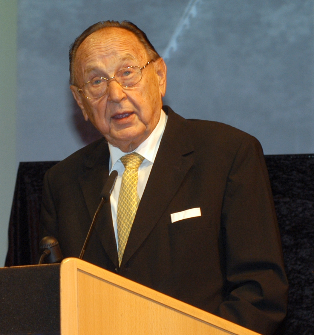 Aalkönig Hans-Dietrich Genscher